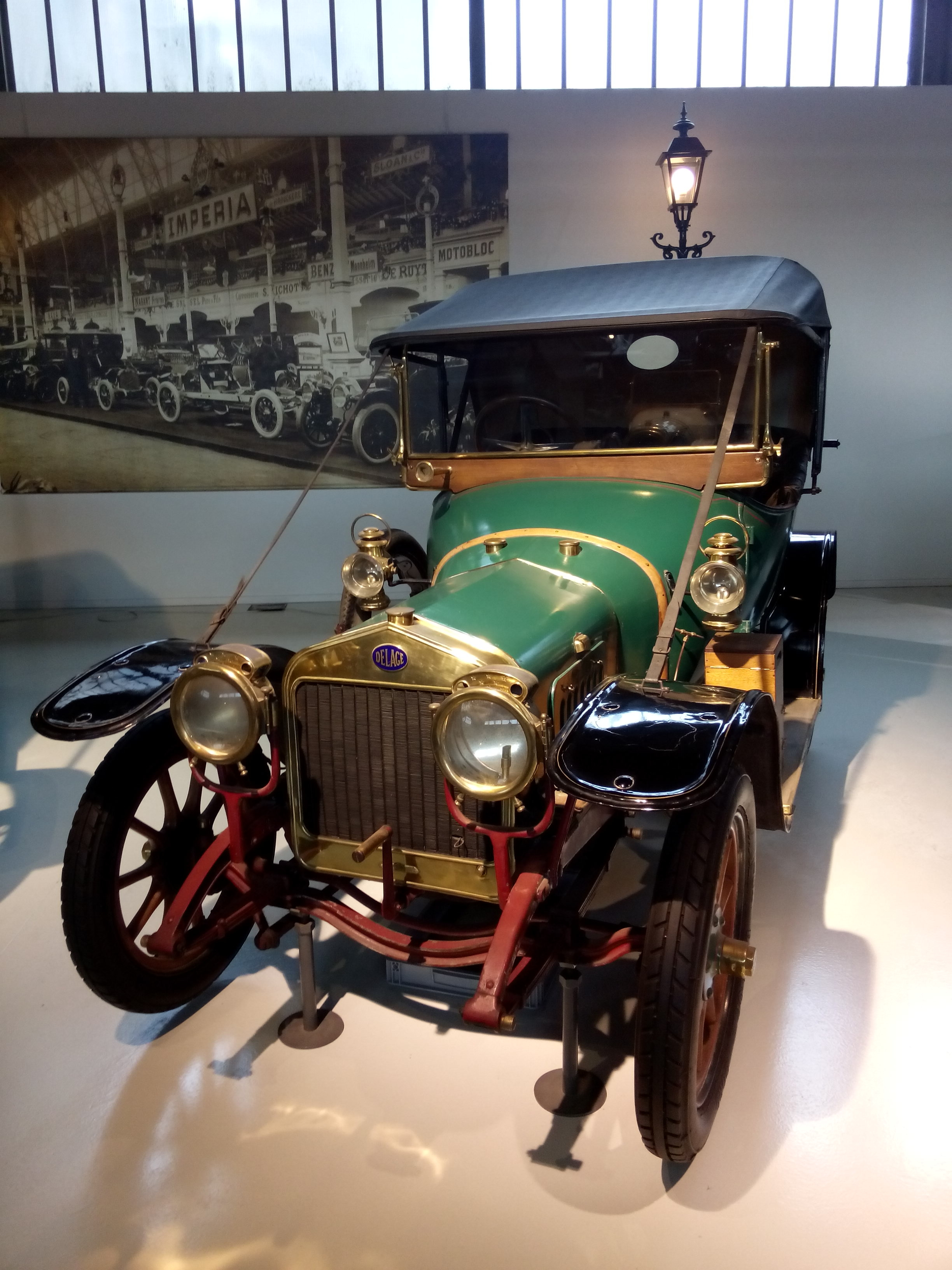 4 cyl - 1328 cc - 8 hp